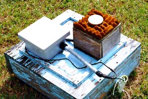 A disdrometer in the Florida's Everglades on an experiment by NOAA. Disdrometers are used to find the rain drop size distributions (DSD), a fundamental descriptor of rain in precipitation physics. These distributions give clues to the evolution of the rain and cloud systems producing them.